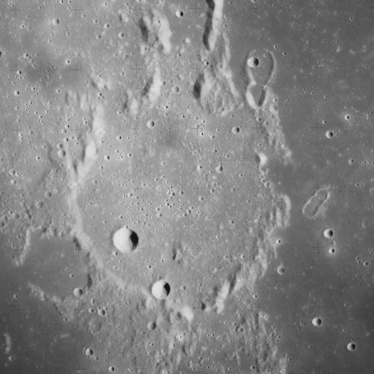 Guericke, on the moon. Sun elevation 30 deg., spacecraft altitude 124 km.